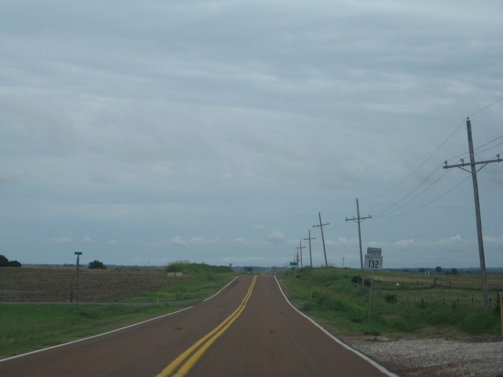 State Highway 132 south of Manchester, Okla.